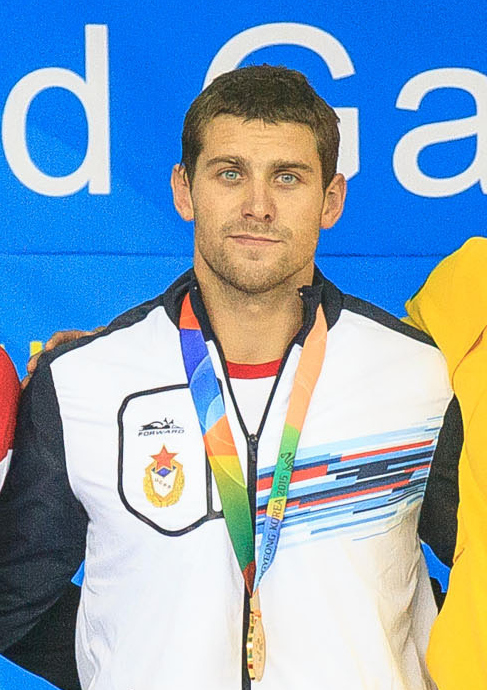 Yevgeny Lagunov. Foto: Sgt Johnson Barros